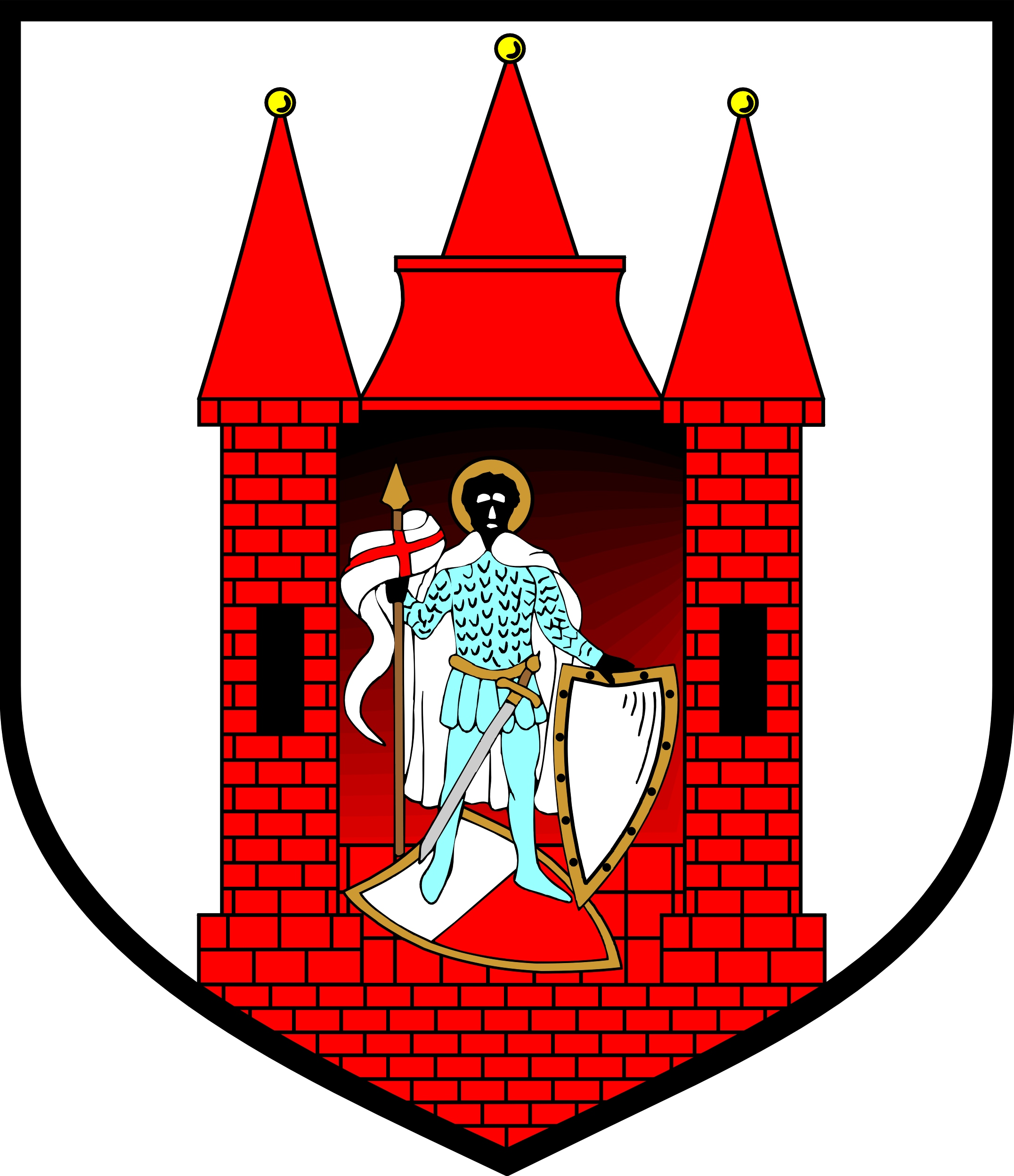 Coat of arms of Sandau.